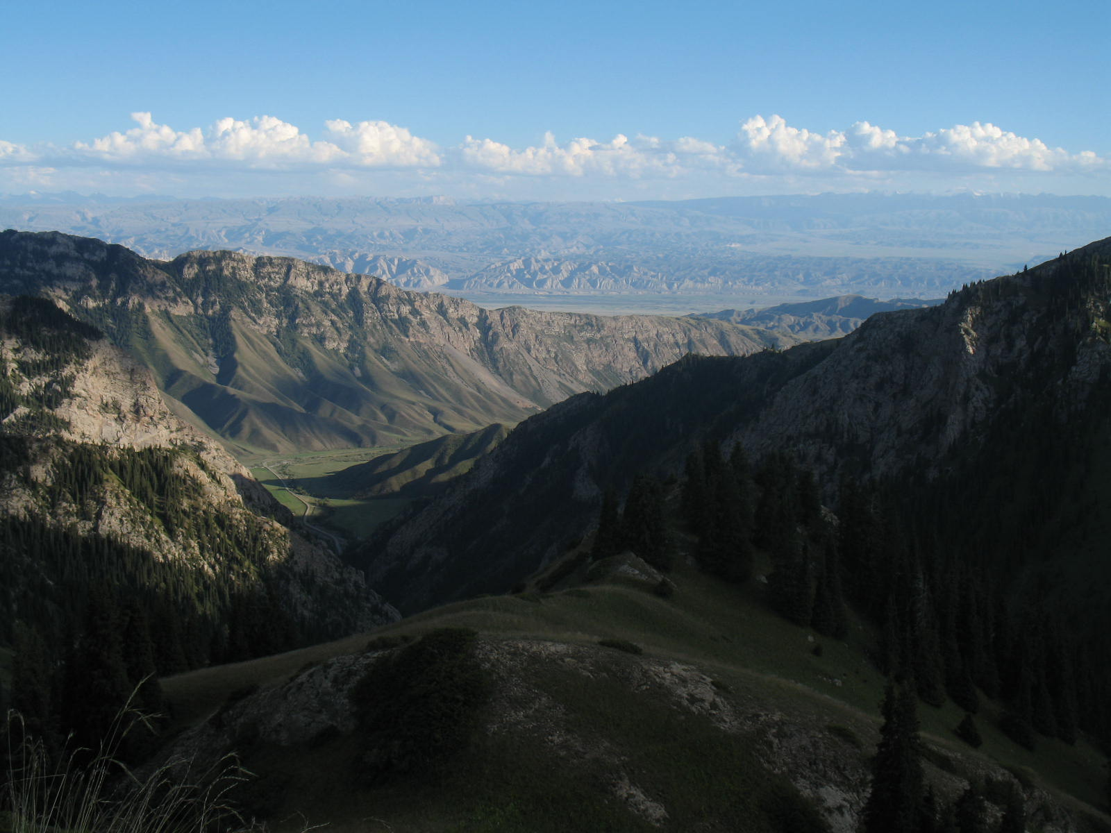 View to the south from Moldo ashuu pass. In Aq-Talaa district, Kyrgyzstan, to the south-west of Song-köl Кыргызча: Молдо ашуусунун түштүгүнө көрүнүүсү. Ак-Талаа району, Кыргызстан - Соң-көлдүн түштүк-батышында.